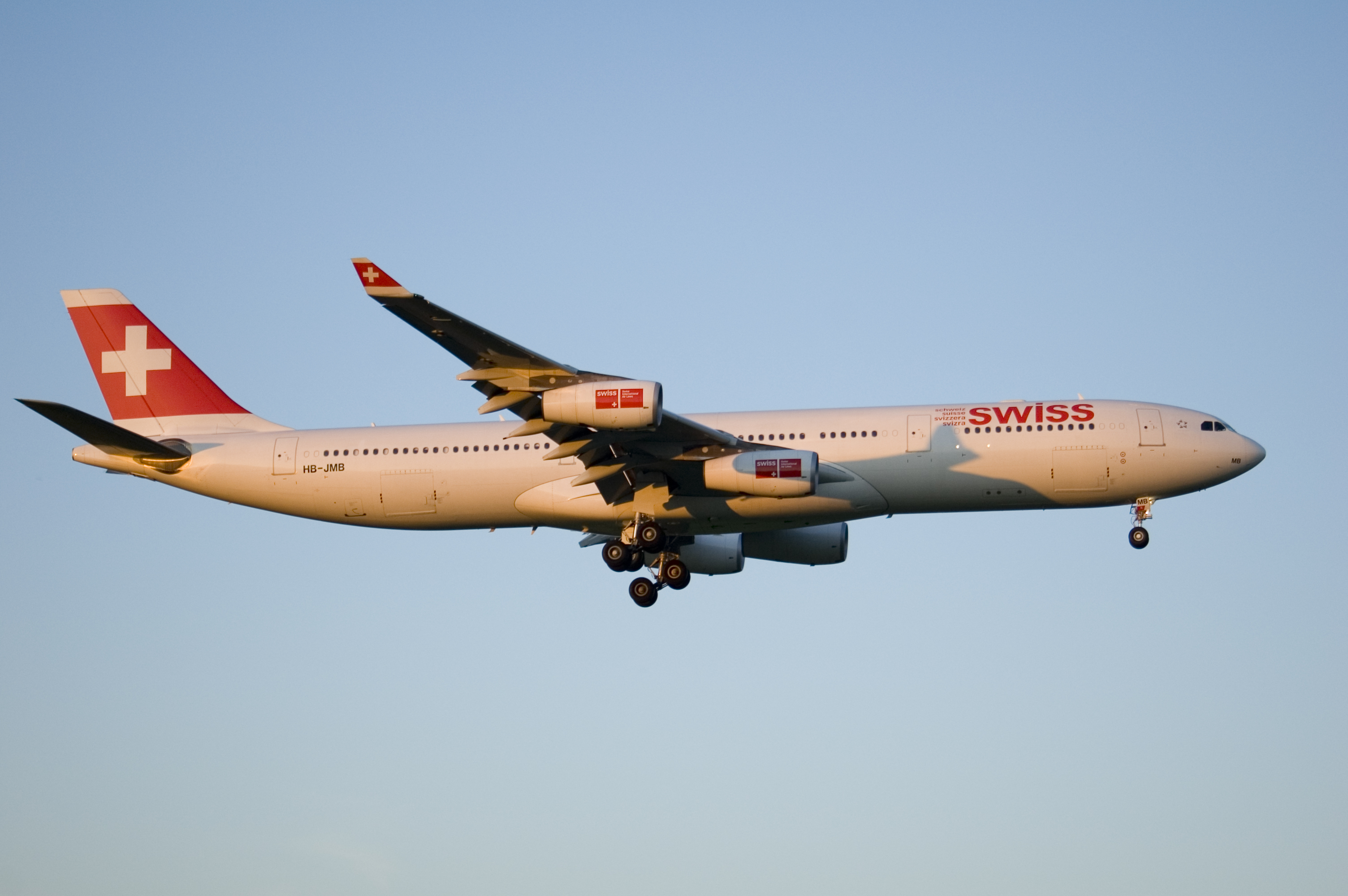 Swiss A340 Landing